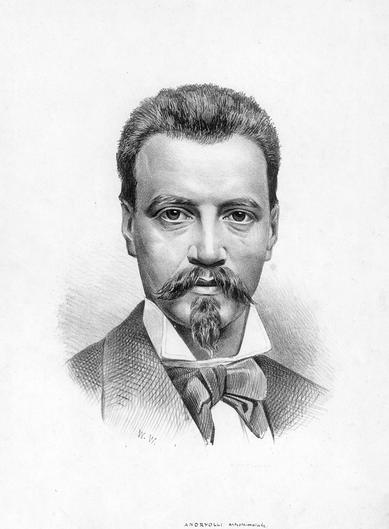 Vladislaw Valkevich, portrait of painter Michal Elwiro Andriolli, XIX century, paper, lithography. National Museum of Lithuania.